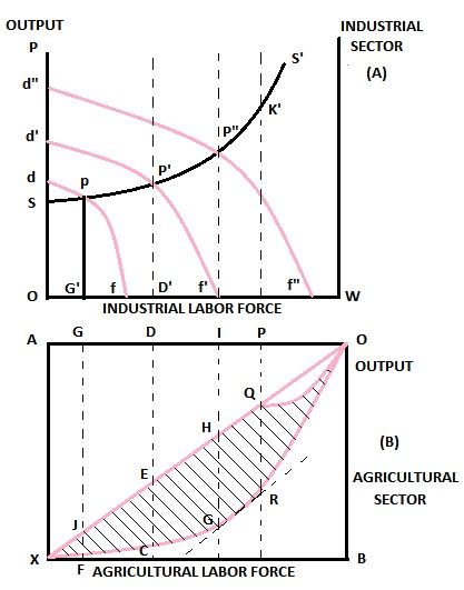 An integration of the industrial and labour sector graphs shown together